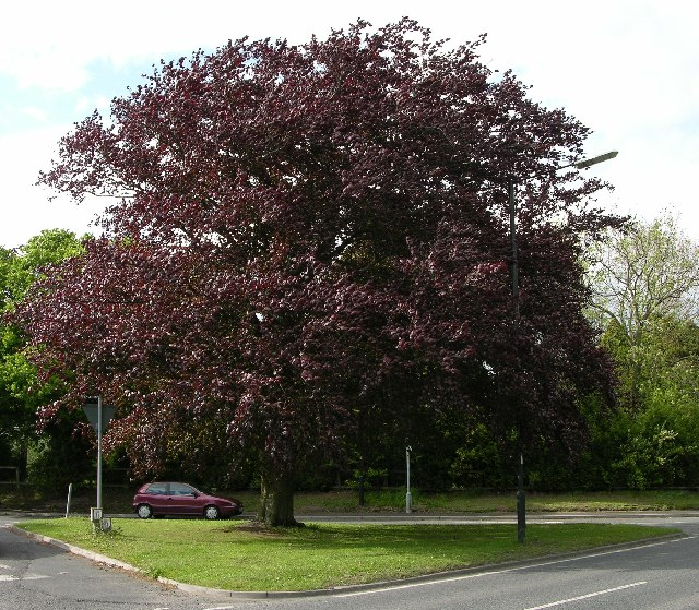 Towthorpe Junction. Pretty Y junction at Towthorpe, nr York